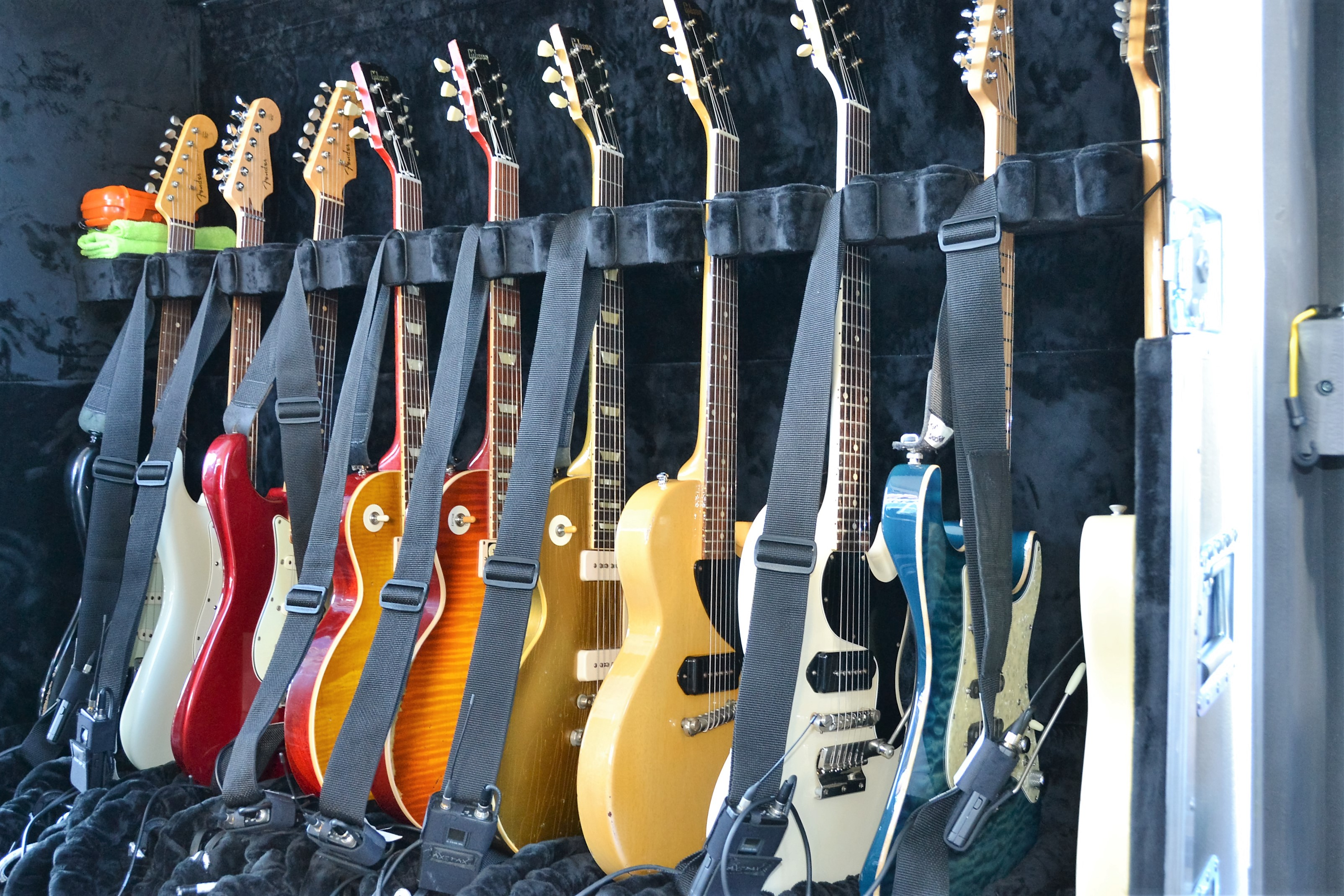 Wildflower! Arts and Music Festival - State Farm Amphitheater backstage guitar vault #wamfest2016